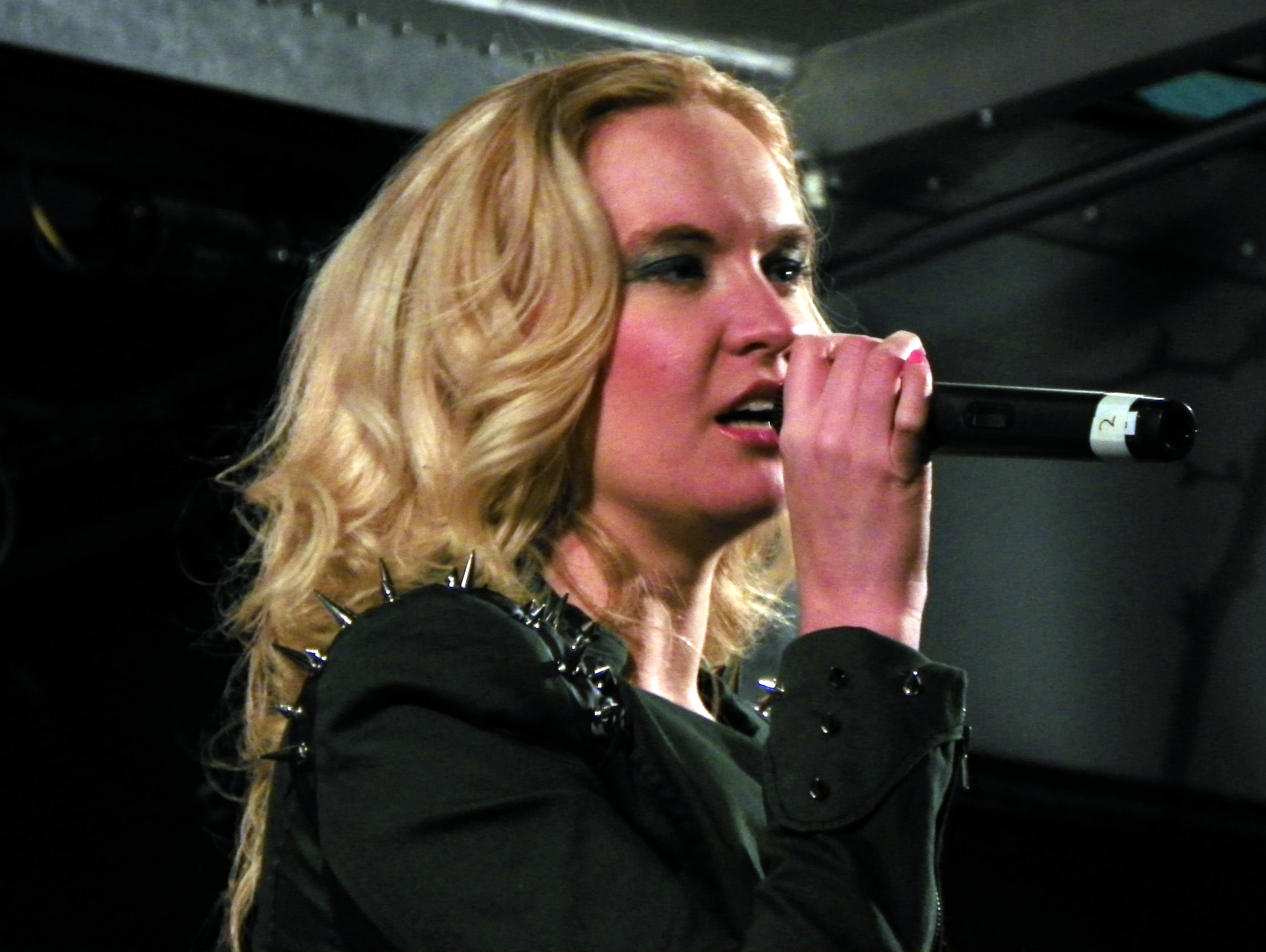 Kitty Brucknell from the 2011 series of The X Factor, performing at Stevenage Chrismas Lights Switch-on, 22 November 2012.